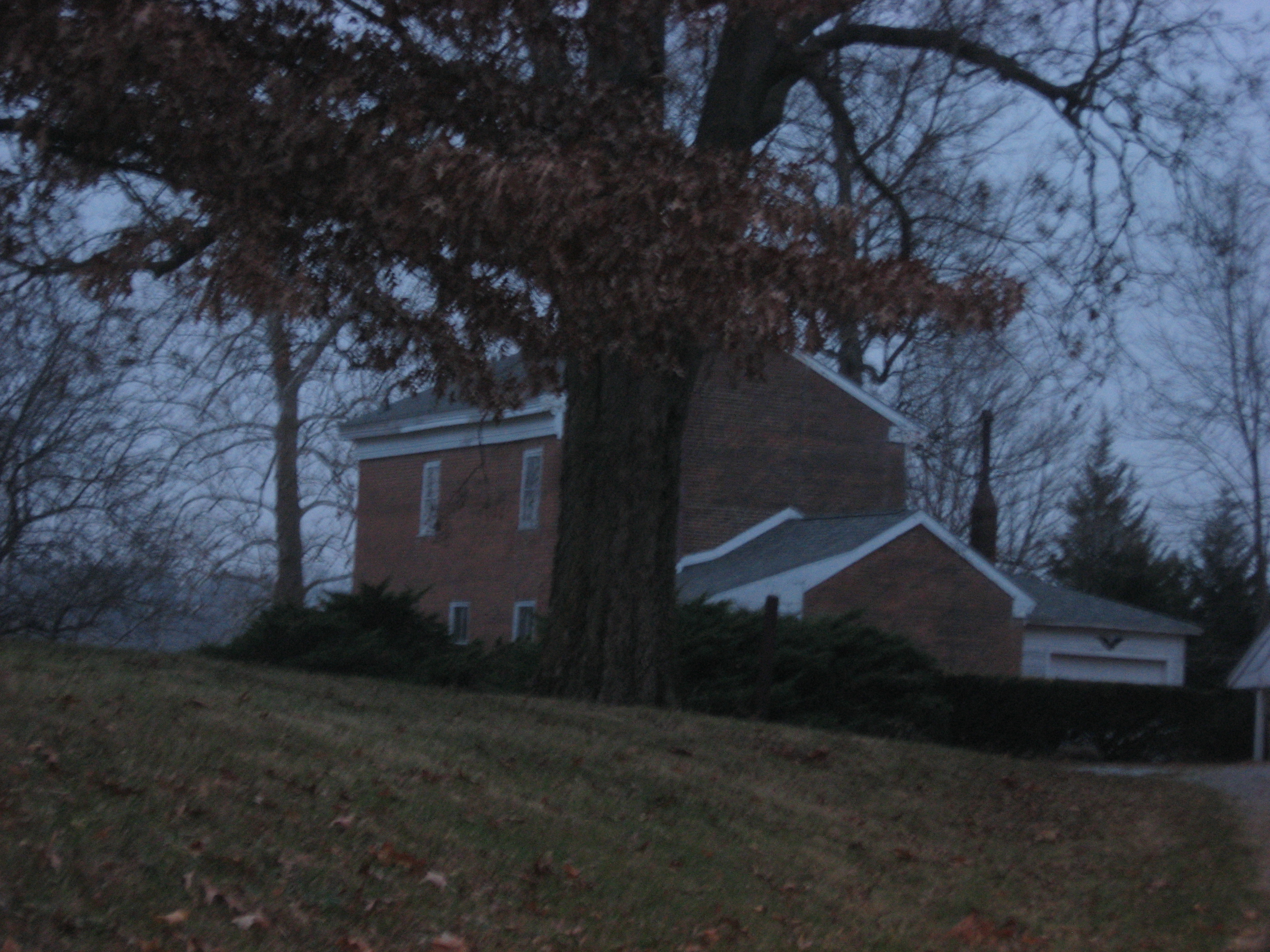 Driveway view of the Hershey House, located at 1904 N. County Road 275 E. northeast of Lafayette in Perry Township, Tippecanoe County, Indiana, United States. Built in 1856, it is listed on the National Register of Historic Places.